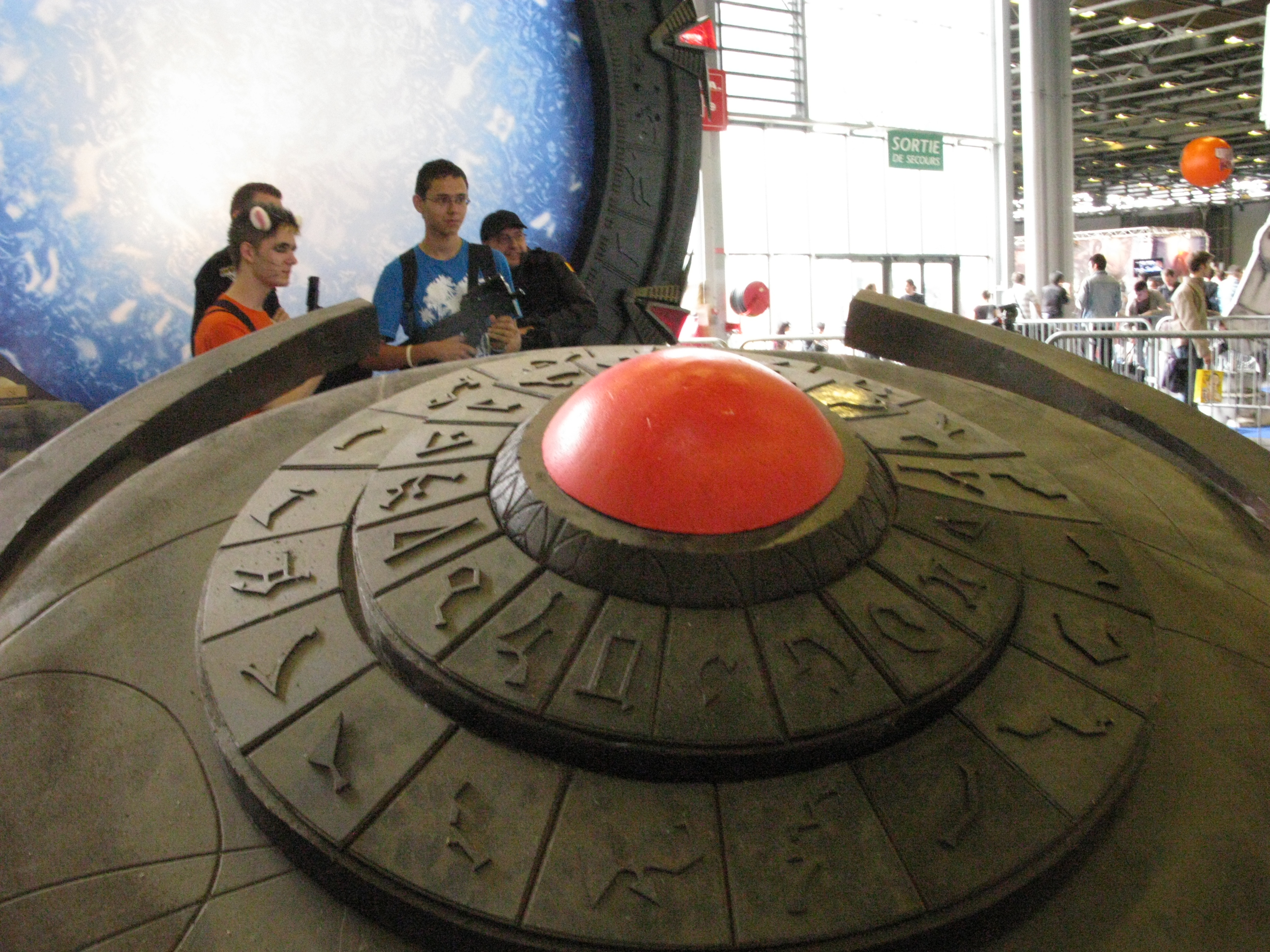 DHD at Japan Expo (Paris) in 2008